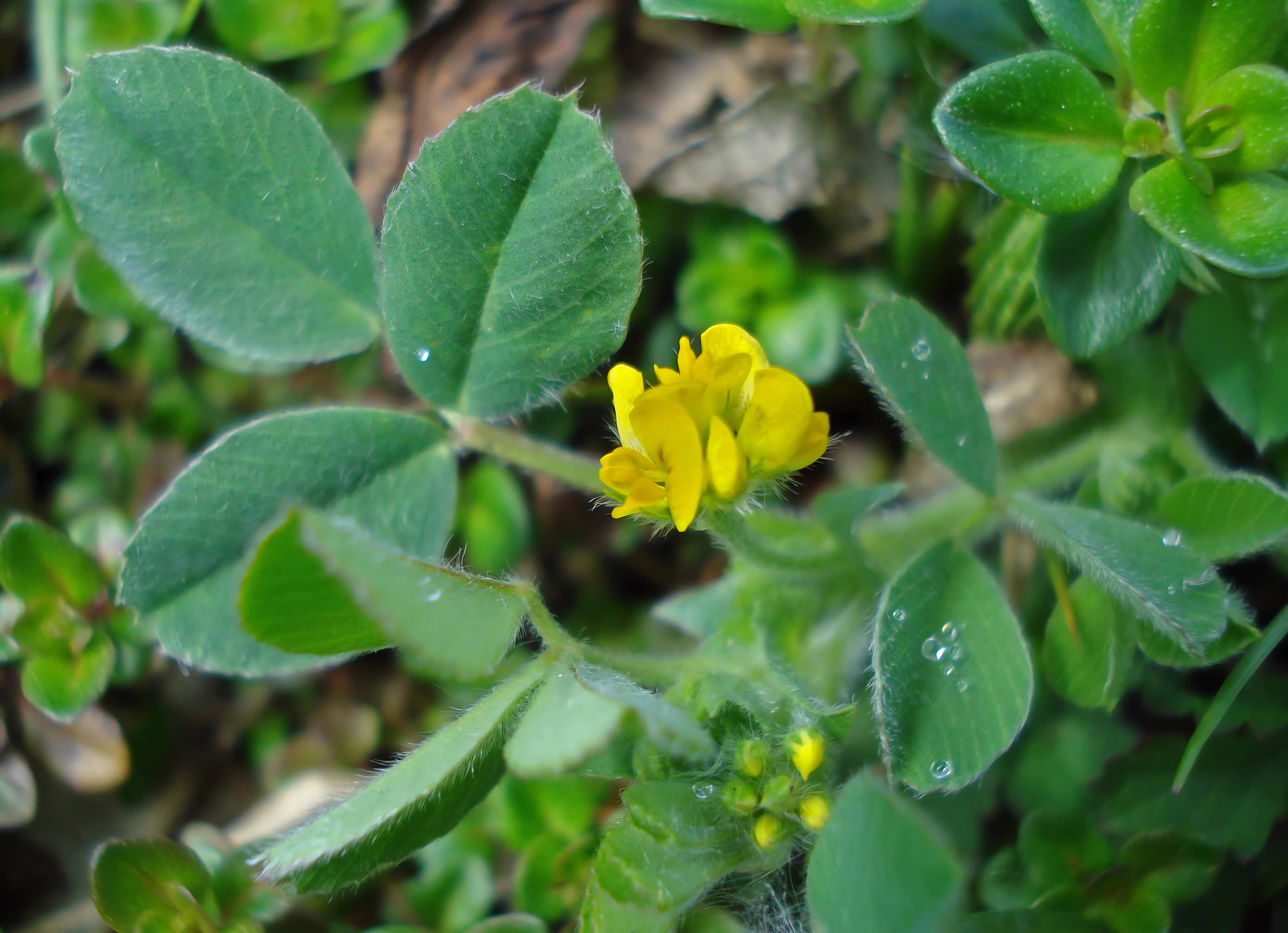 Medicago minima, Unterfranken (Germany)